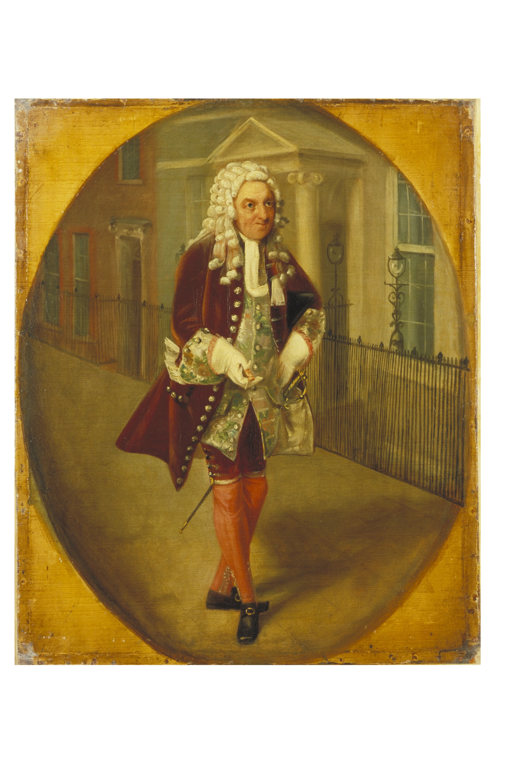 Portrait entitiled "Richard Suett as Bayes in 'The Rehearsal' by George Villiers, Second Duke of Buckingham.", John Graham,1796.